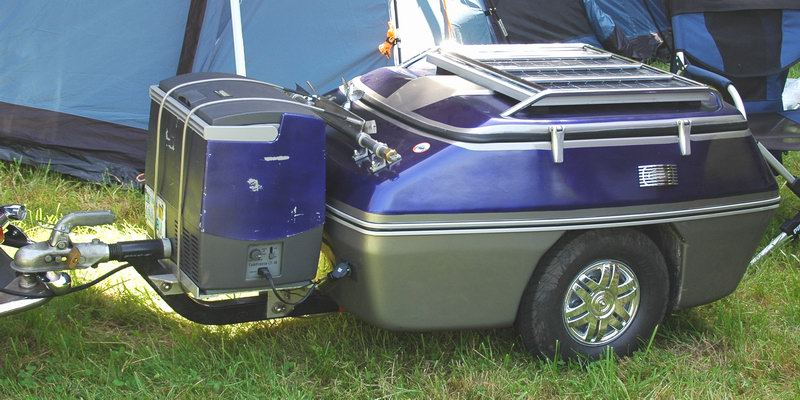 Small motorcycle towed trailer with cooler